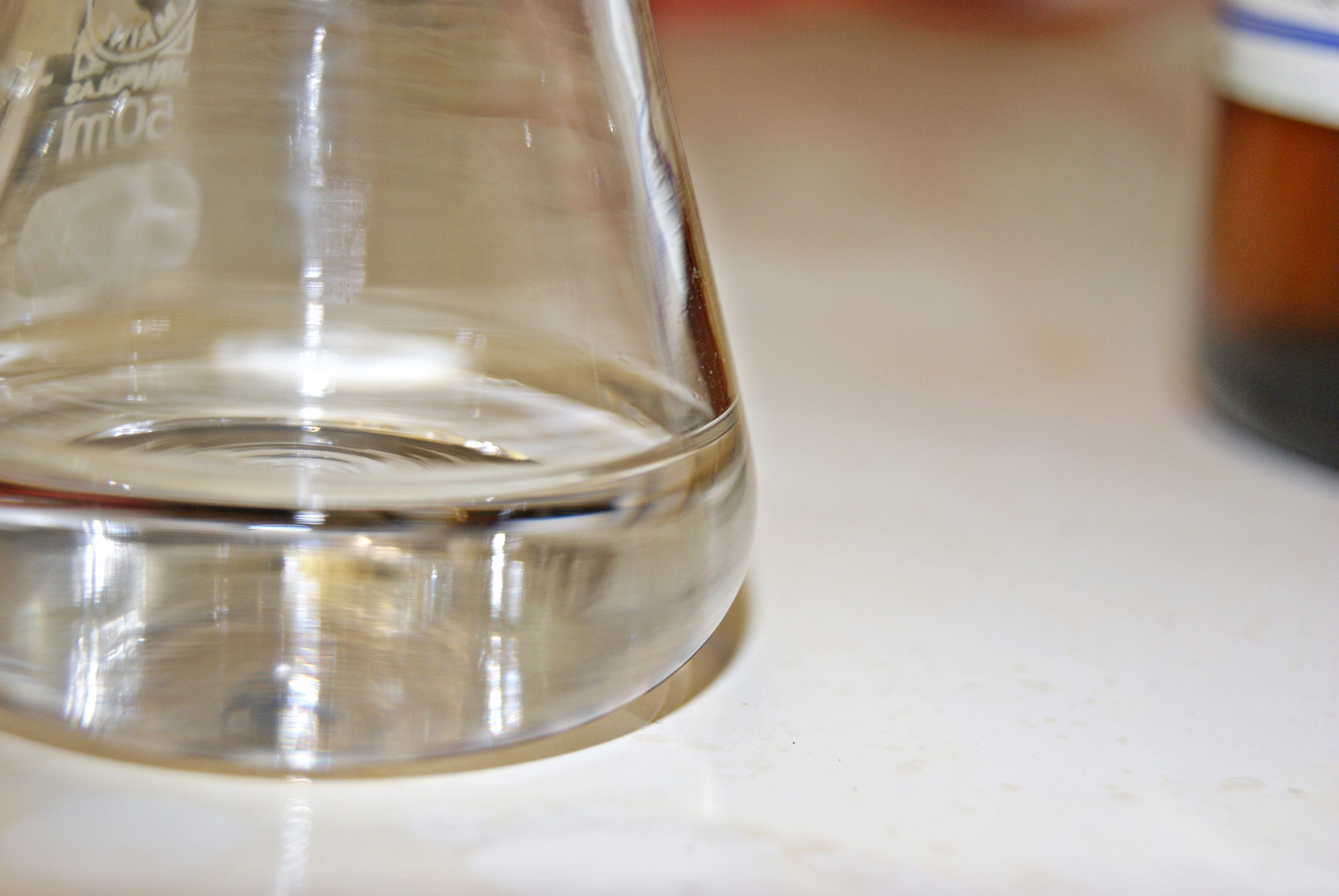 h-Hexane